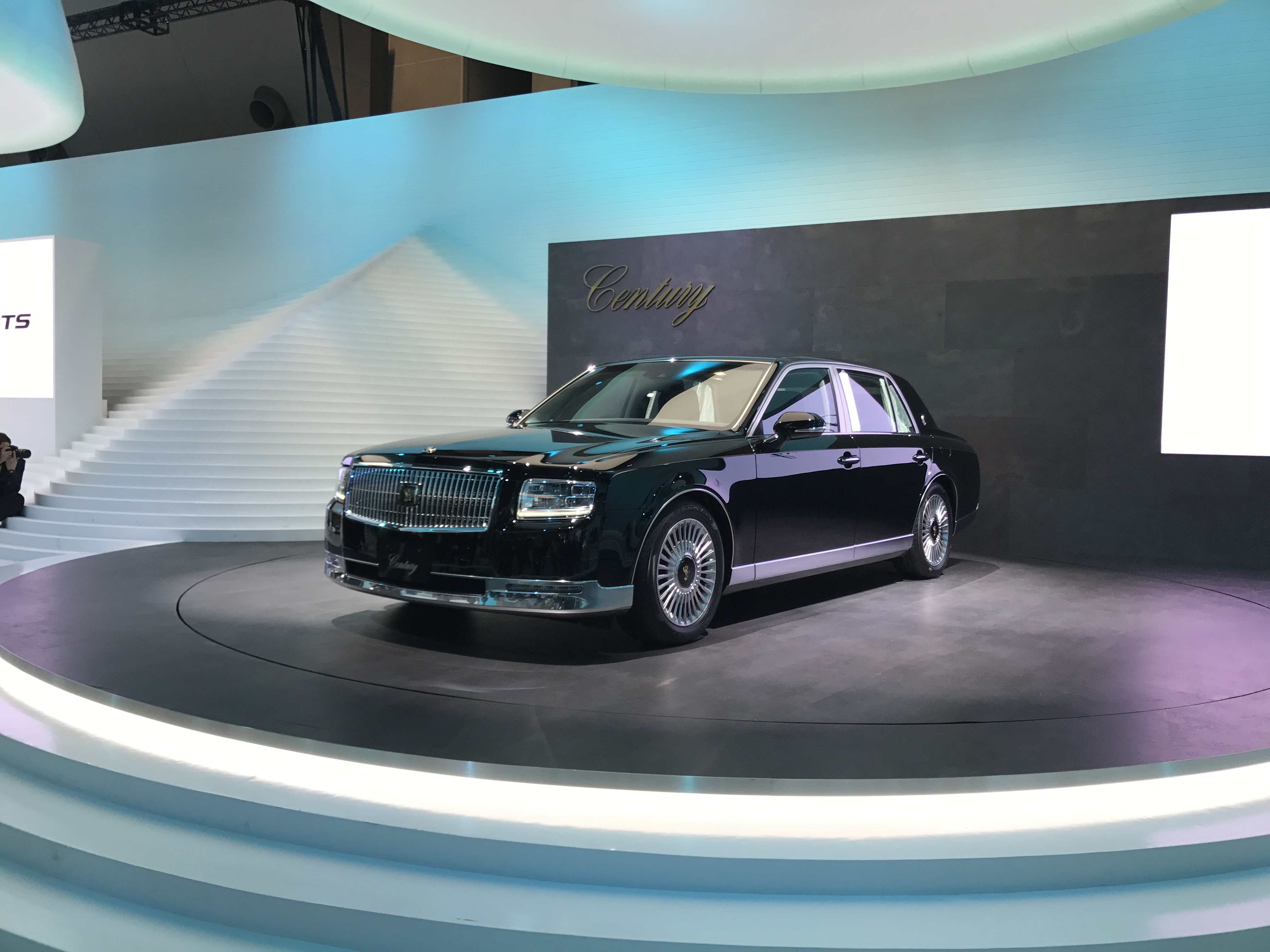 Front view of 3rd generation Toyota Century at the 2017 Tokyo Motor Show